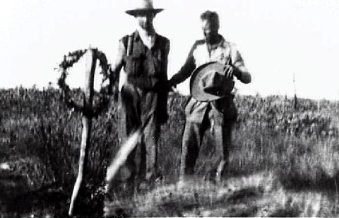 Sergeant Eric Douglas & Flight Lieutenant Charles "Moth" Eaton standing beside Keith Anderson's grave, at the wreck of the Kookaburra, Central Australia